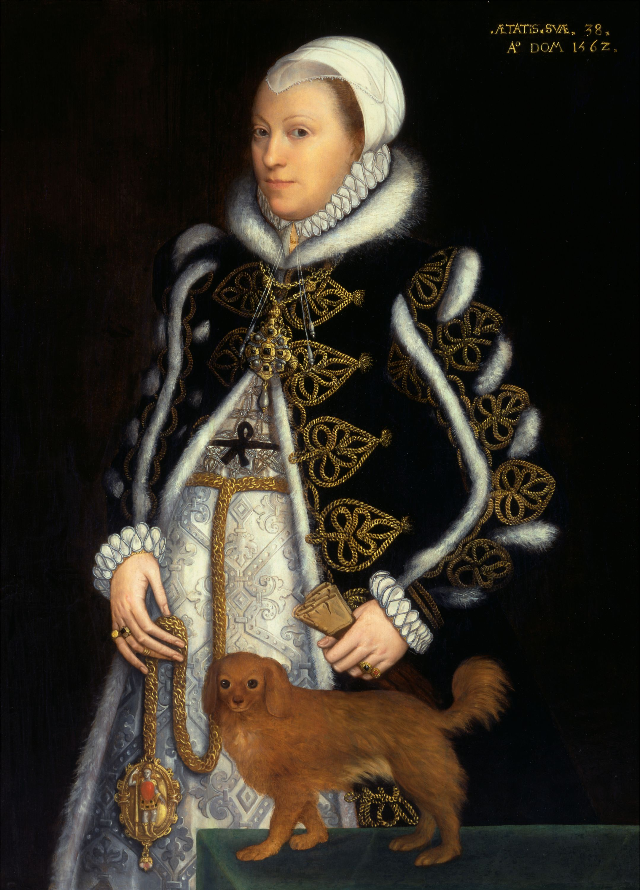 Portrait of a Woman, probably Catherine Carey, Lady Knollys.